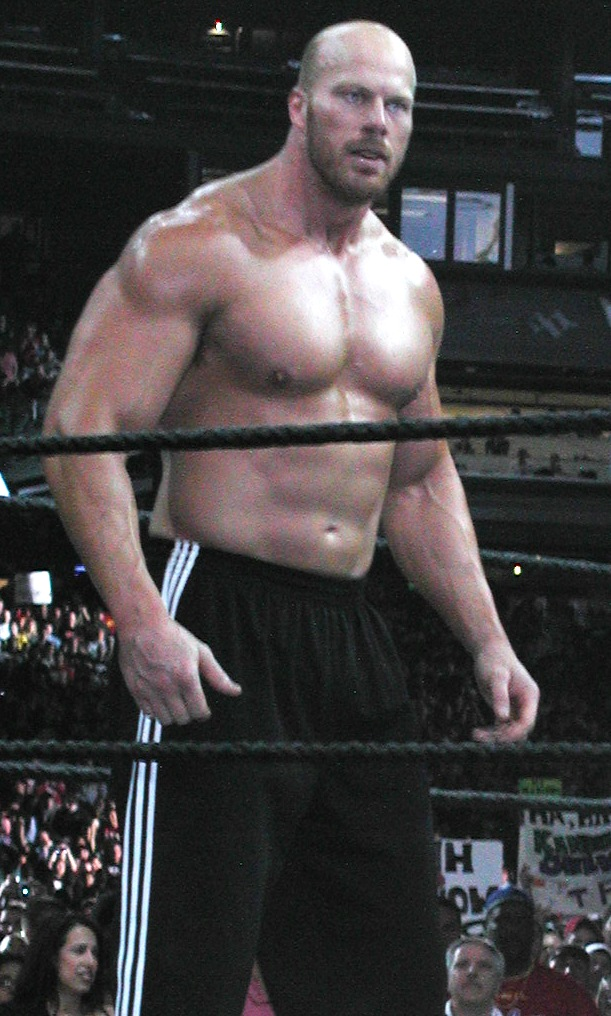 Nathan Jones at WrestleMania XIX. Safeco Field. Seattle. March 302003.